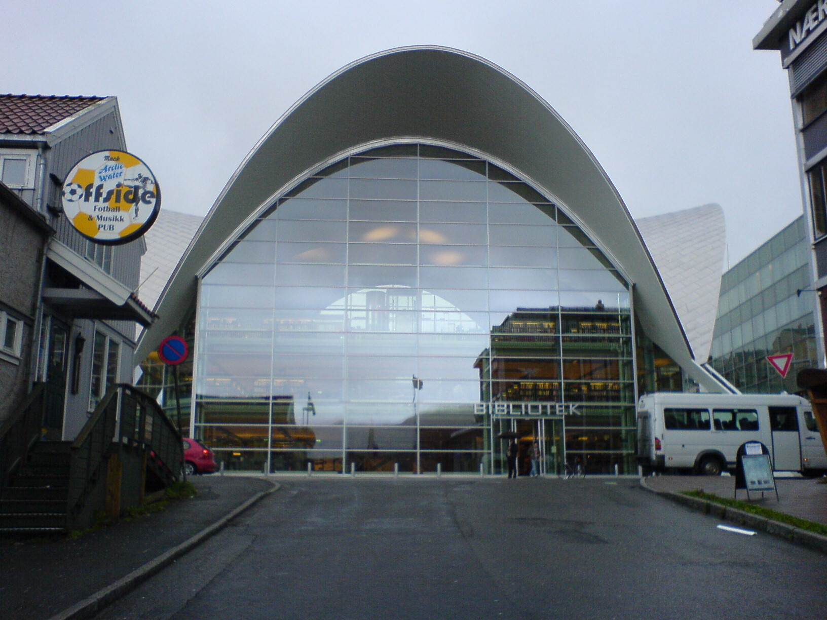 The new library in Tromsø, opened 2005 Picture taken by Håkon Dahlmo on 2005-09-13